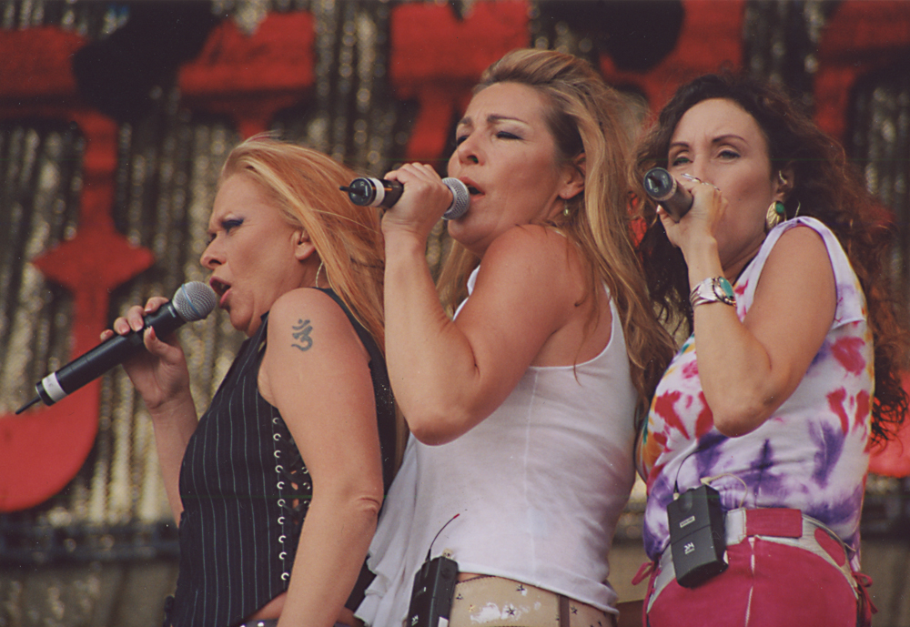 Cowgirls here in concert. From the left: Sanne Salomonsen, Lis Sørensen & Tamra Rosanes. Copyright: I hereby state that i'm the creator of this photographic work, and that it is uploaded to Wikipedia under GFDL with my knowledge. Philip Meisner